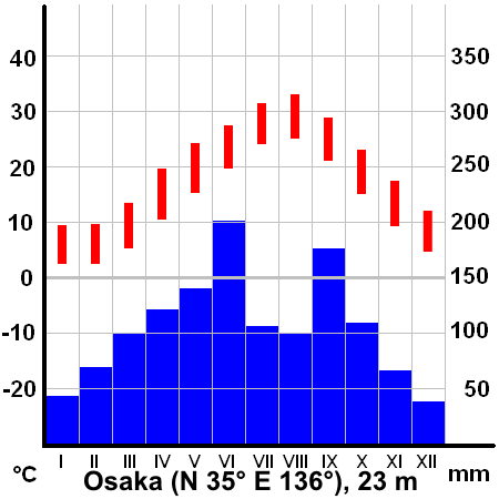 Climate diagram of Osaka, Japan. Map based Image:ClimateTemplate.PNG Source:JMA data